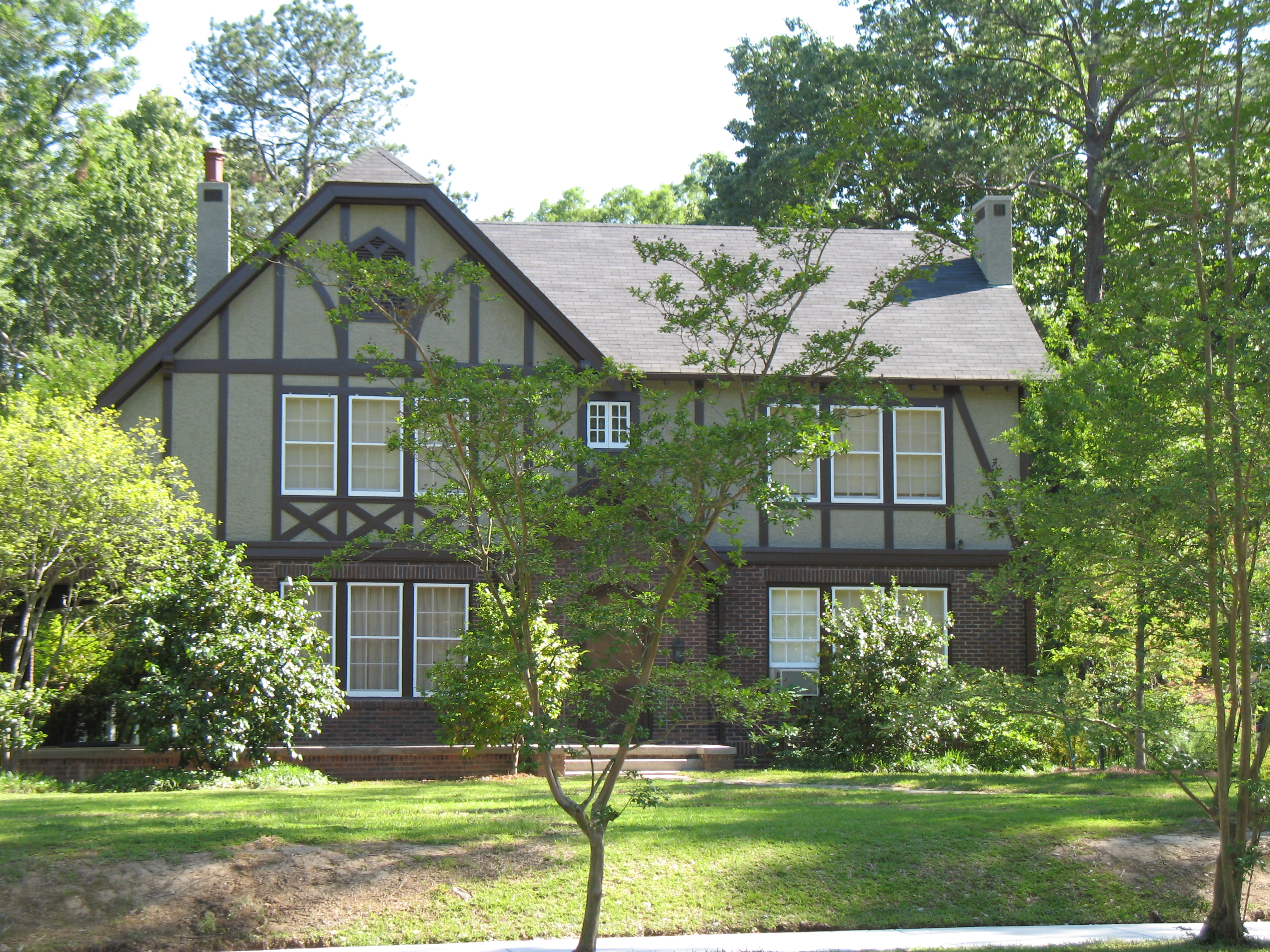 The Eudora Welty House in Jackson, Mississippi. Home of author Eudora Welty for nearly 80 years.